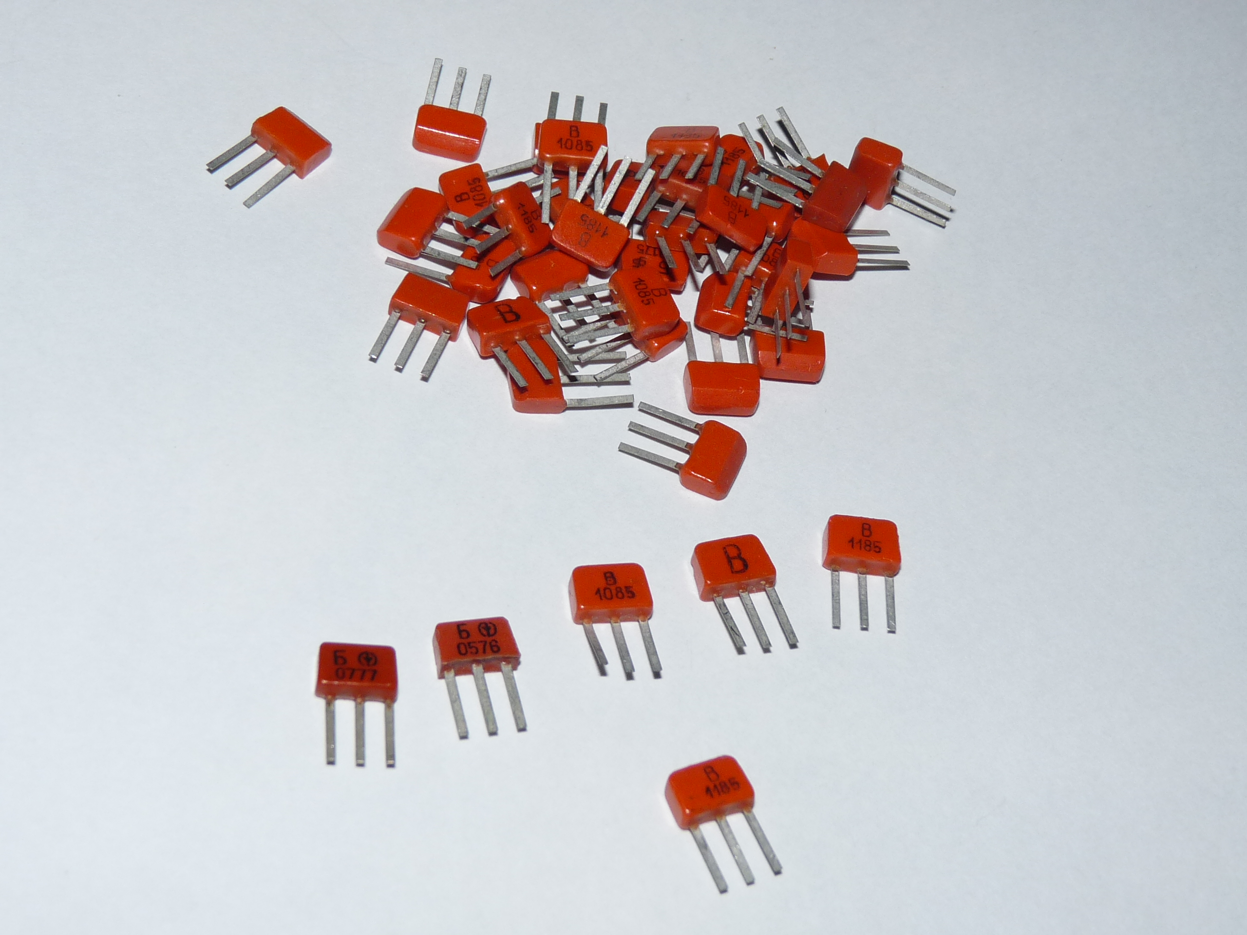 USSR transistors KT315 and KT361